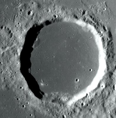 Crater Billy - LROC image WAC No. M117826631ME